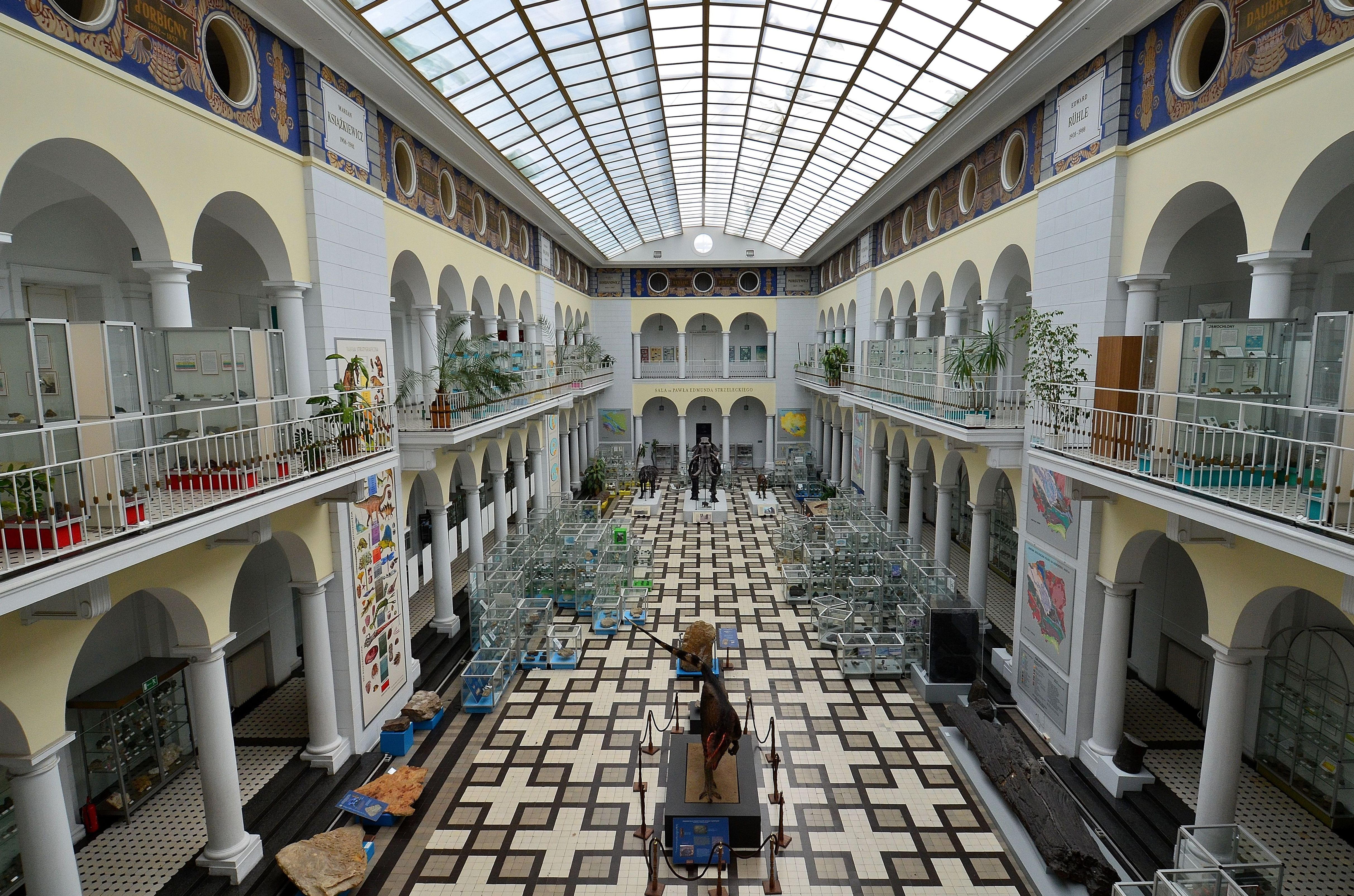 Geological Museum of the State Geological Institute in Warsaw